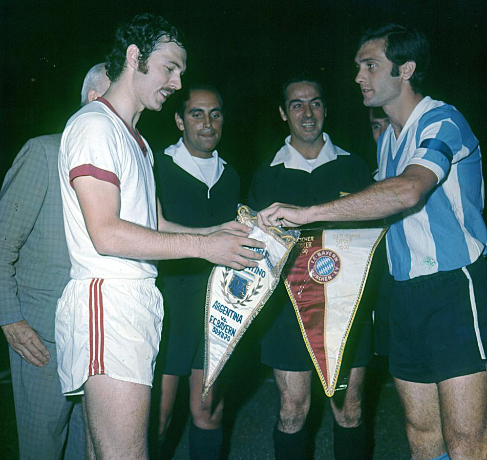 Captains Franz Beckenbauer and Roberto Perfumo changing pennants, before the Argentina v Bayern M friendly match in Buenos Aires.